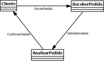 This is a UML - Colaboration Diagram